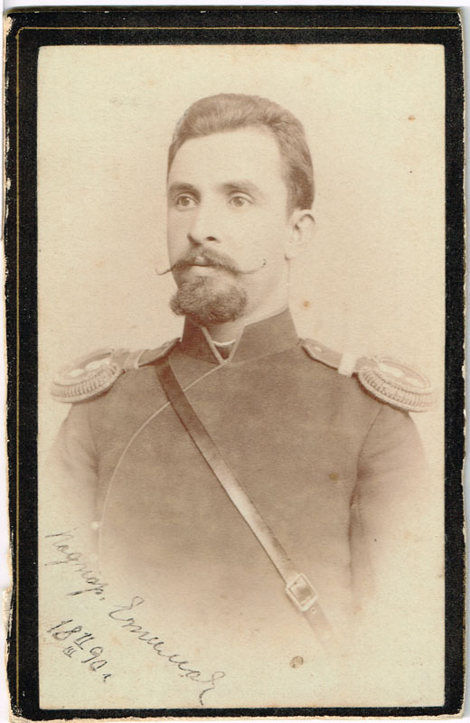 Portrait of lieutenant Todor Etimov (1890)